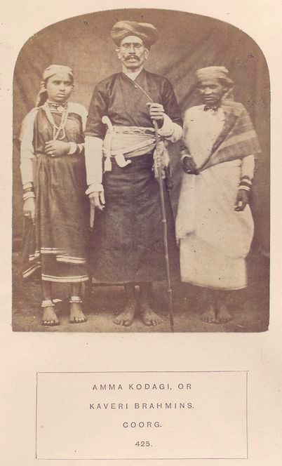 Amma Kodagi, or Kaveri Brahmins, Coorg, (family) (from NY public library)